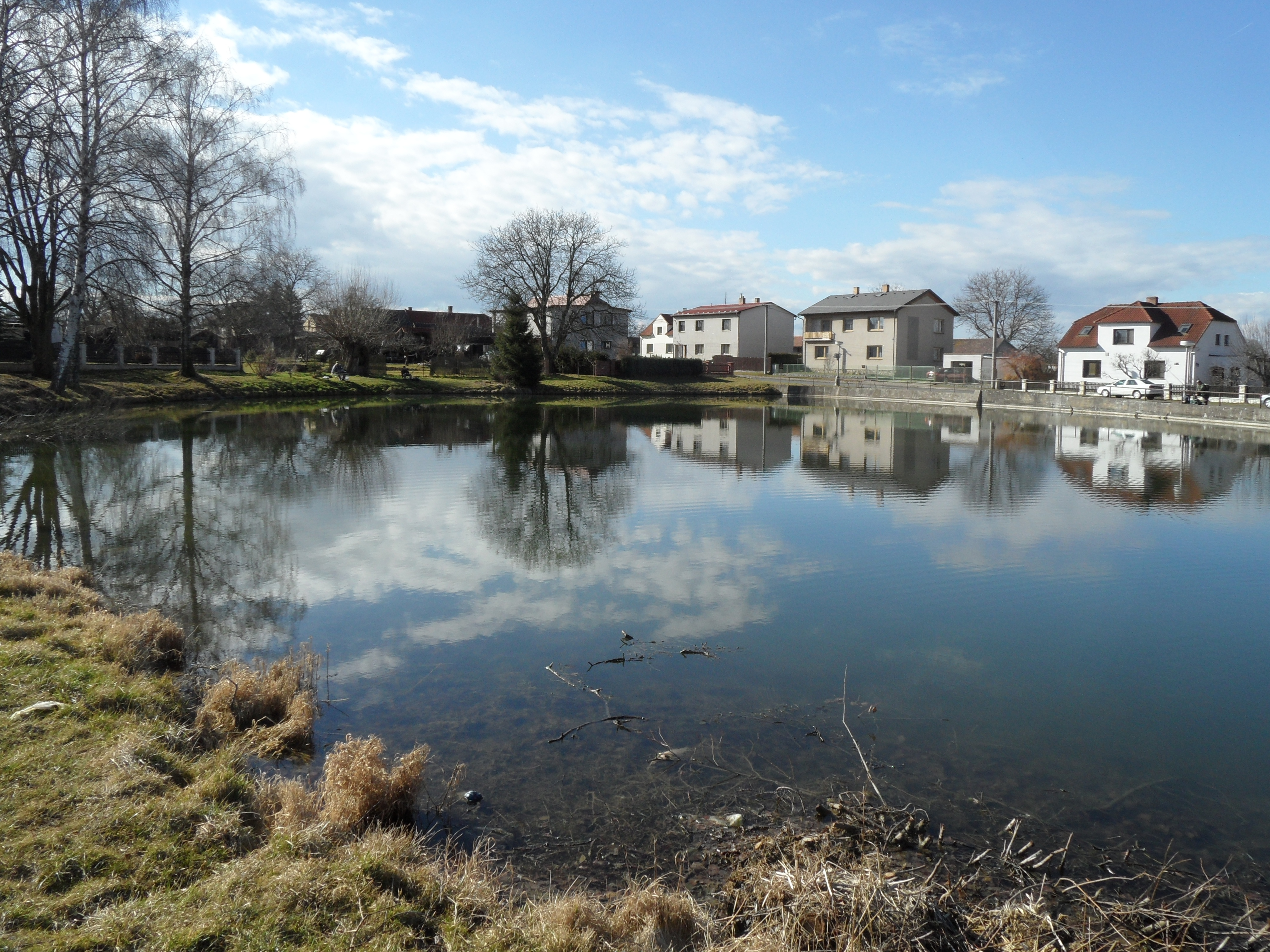 Hostovlice A. Small Pound Near Road from Horky (View towards Čáslav), Kutná Hora District, the Czech Republic.